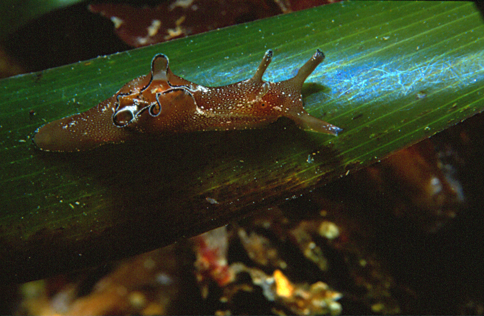 Aplysia punctata juvenile (≈25 mm), Posidonia oceanica (Linnaeus) Delile, 1813 - Port-Vendres : 04/89